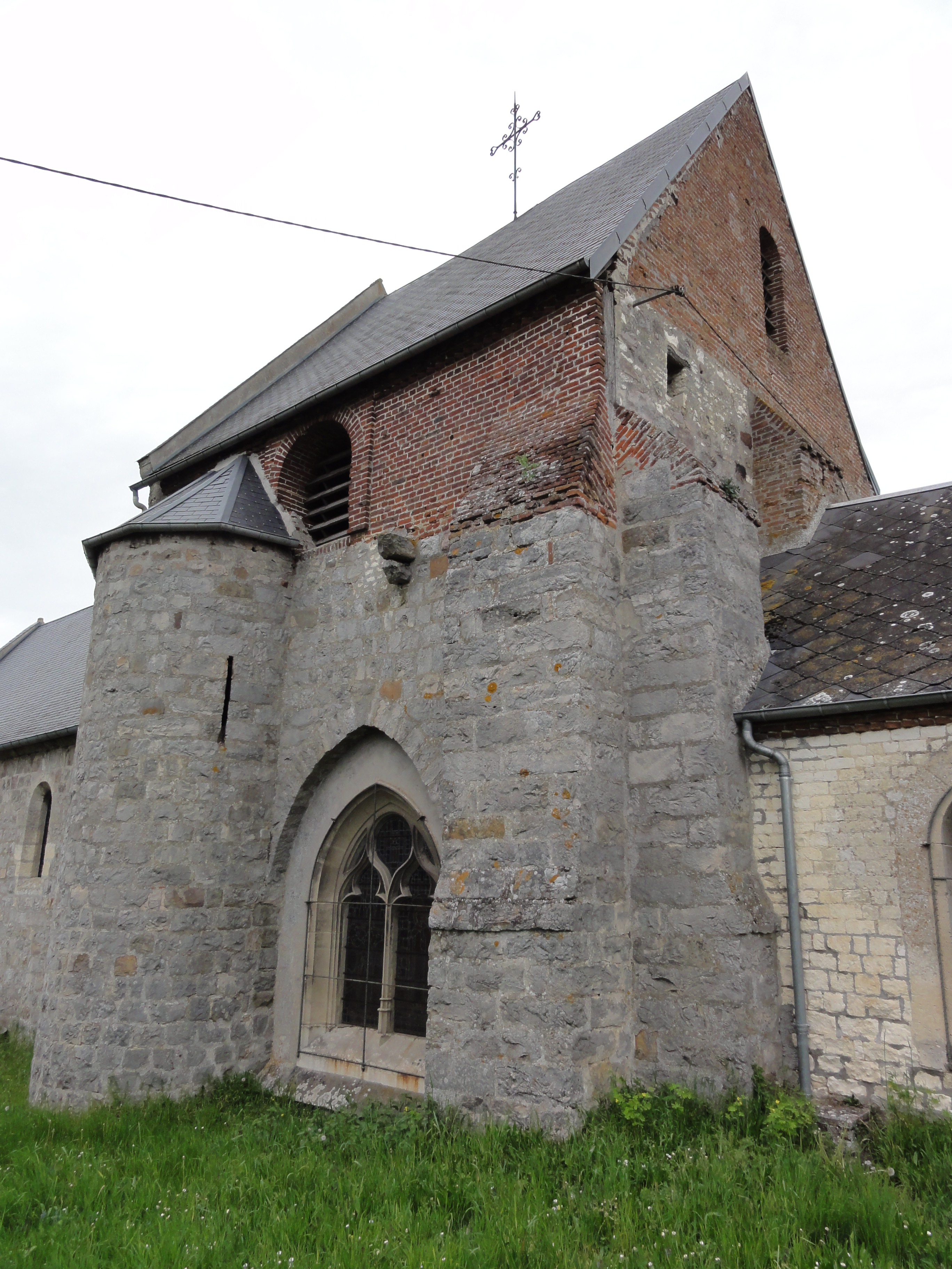 Monceau-lès-Leups (Aisne) église